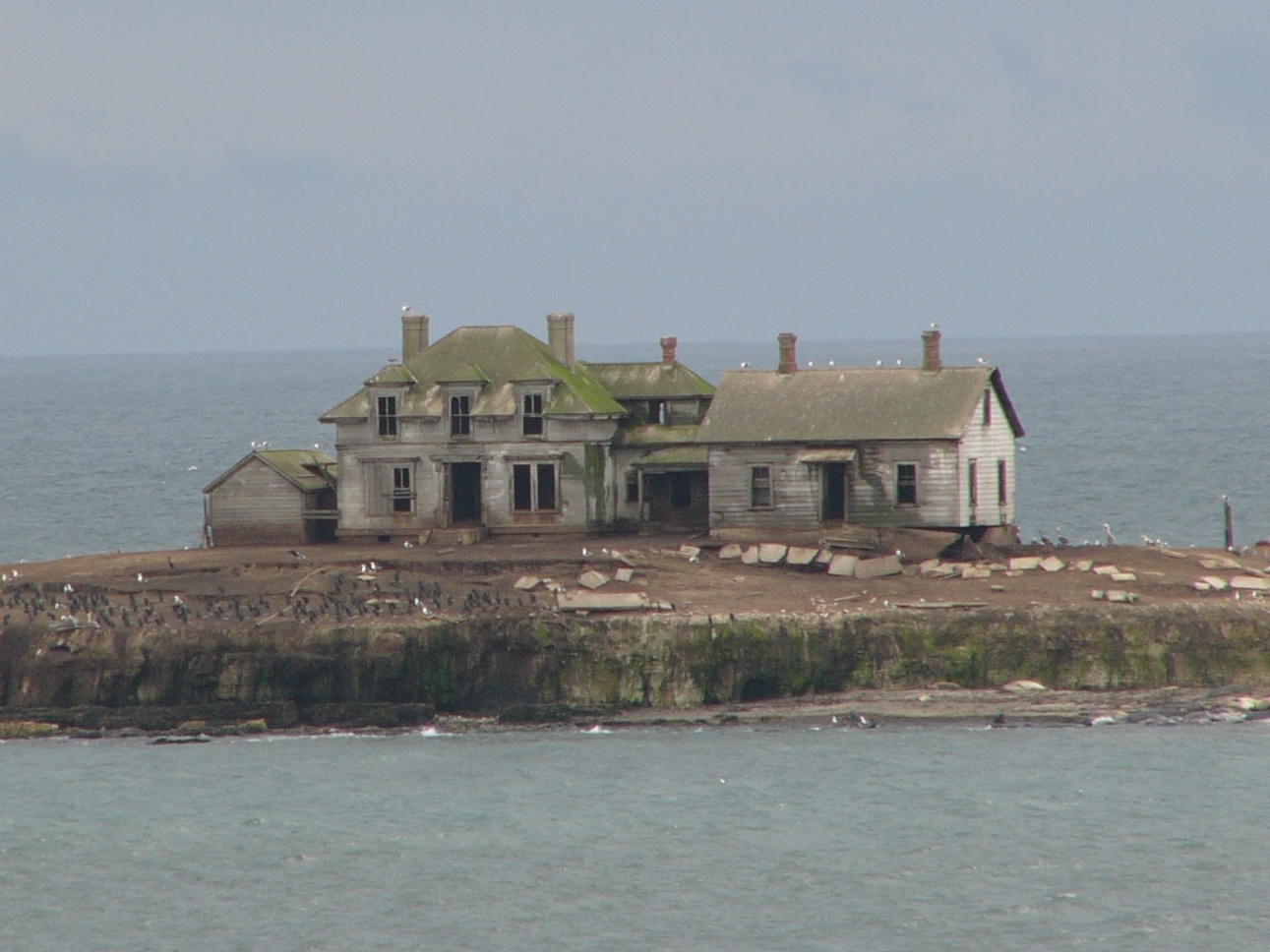 Abandoned lighthouse-keeper's house on Año Nuevo Island in Santa Cruz County, California. The lighthouse tower was demolished in 1976.